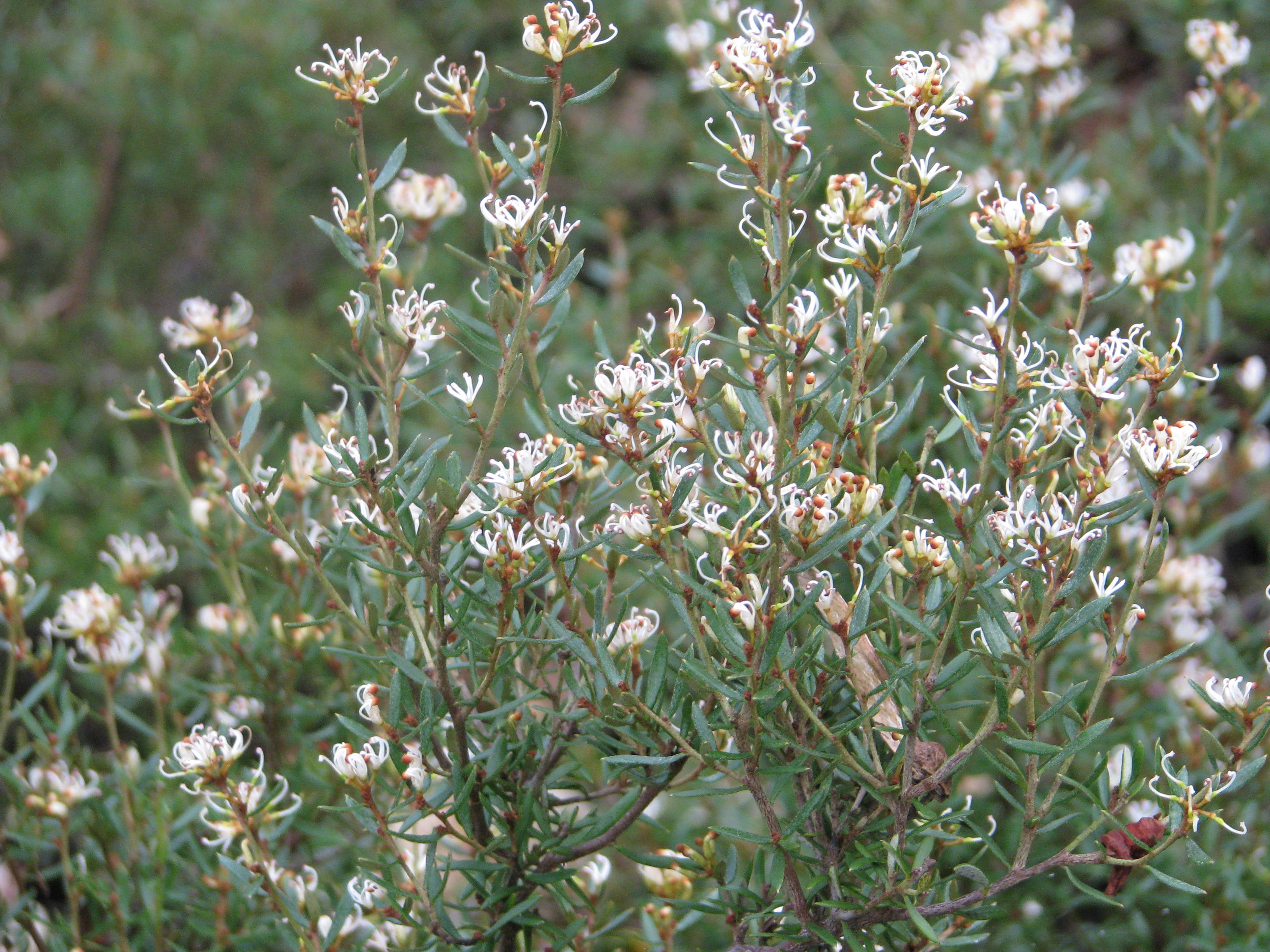 Not the most exciting species by any means but not without charm and, being the only Grevillea found wild in Tasmania (I seem to recall) probably one of the hardiest. It looks completely happy at Wakehurst anyway.